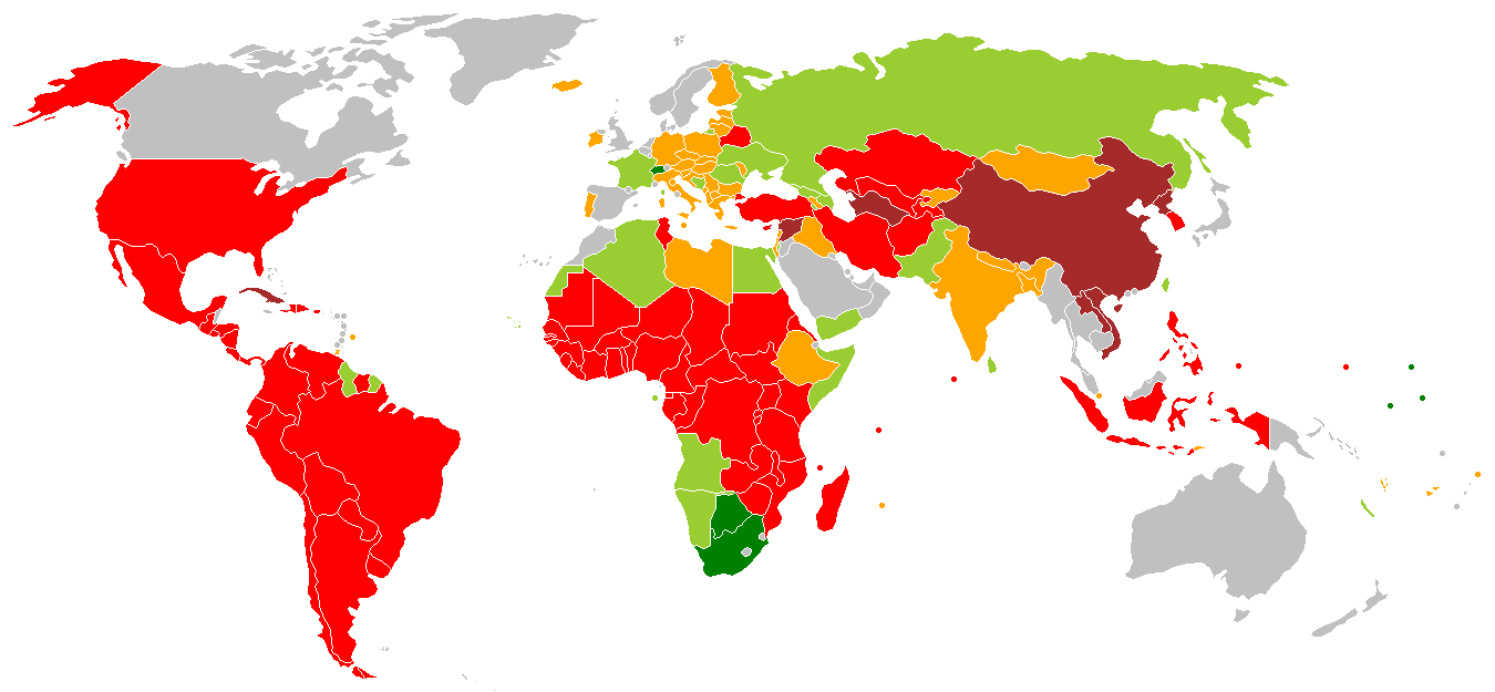 Based on info from Image:Form of Government.png using Image:BlankMap-World-v2.png, showing microstate monarchies.